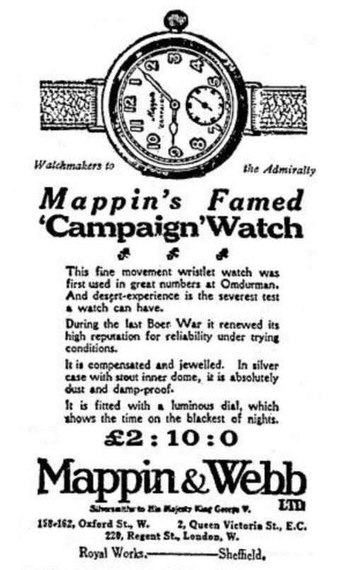 1915 Advertisement for wristwatch, produced by Mappin & Webb